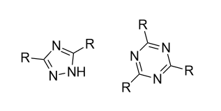 These are two examples of core structures of monocyclic non xanthine based A2A adenosine antagonists. There can be different numbers of N in the core cycle and R can be, for example: S, O, NR, NH2 and more.